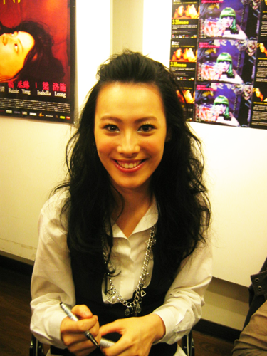 Isabella Leong on March 17, 2007 to promote the film Spider Lilies in Taiwan